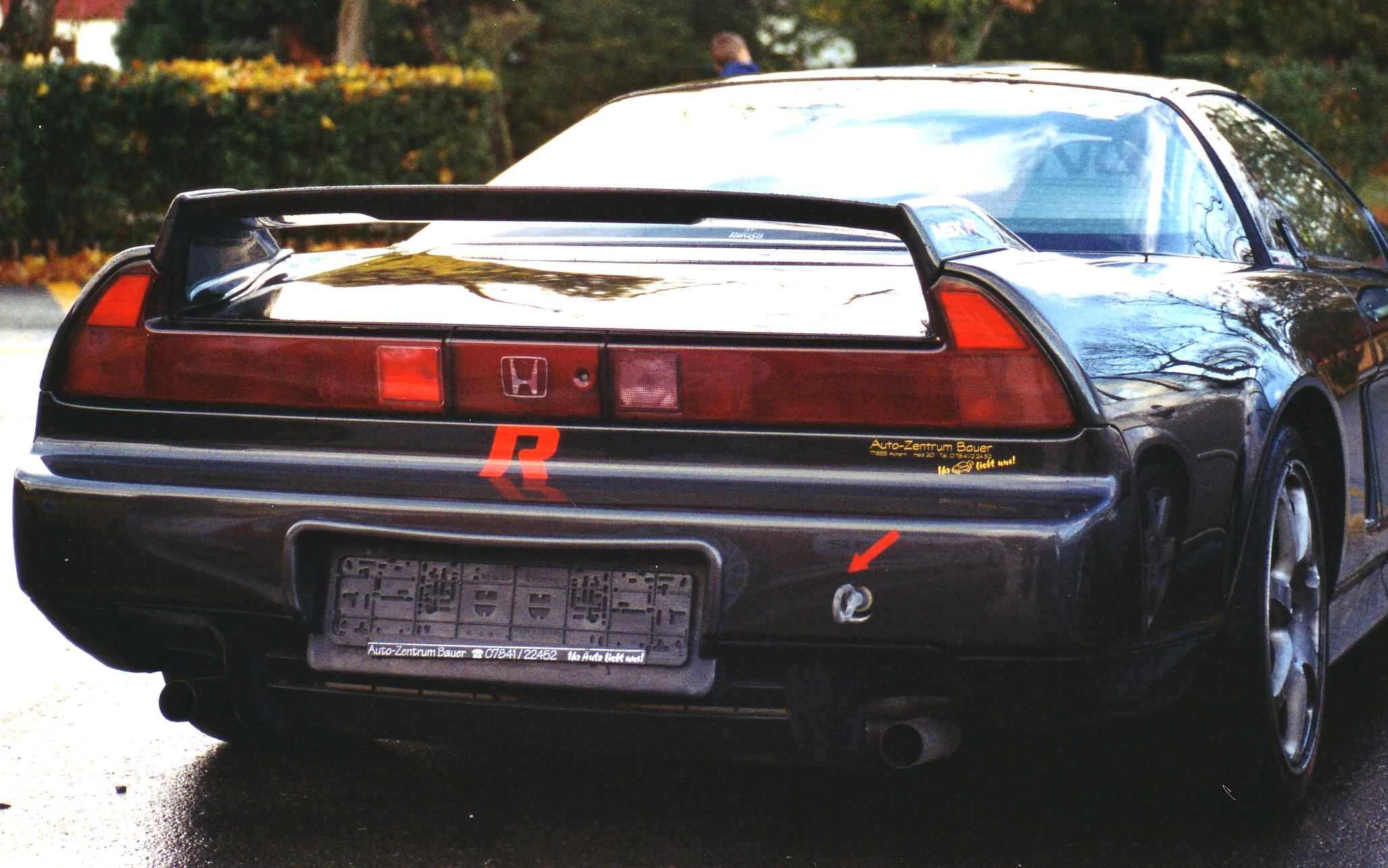 Honda NSX NA2 (model year 1998) with custom exhaust and NSX-R carbon fiibre rear wing